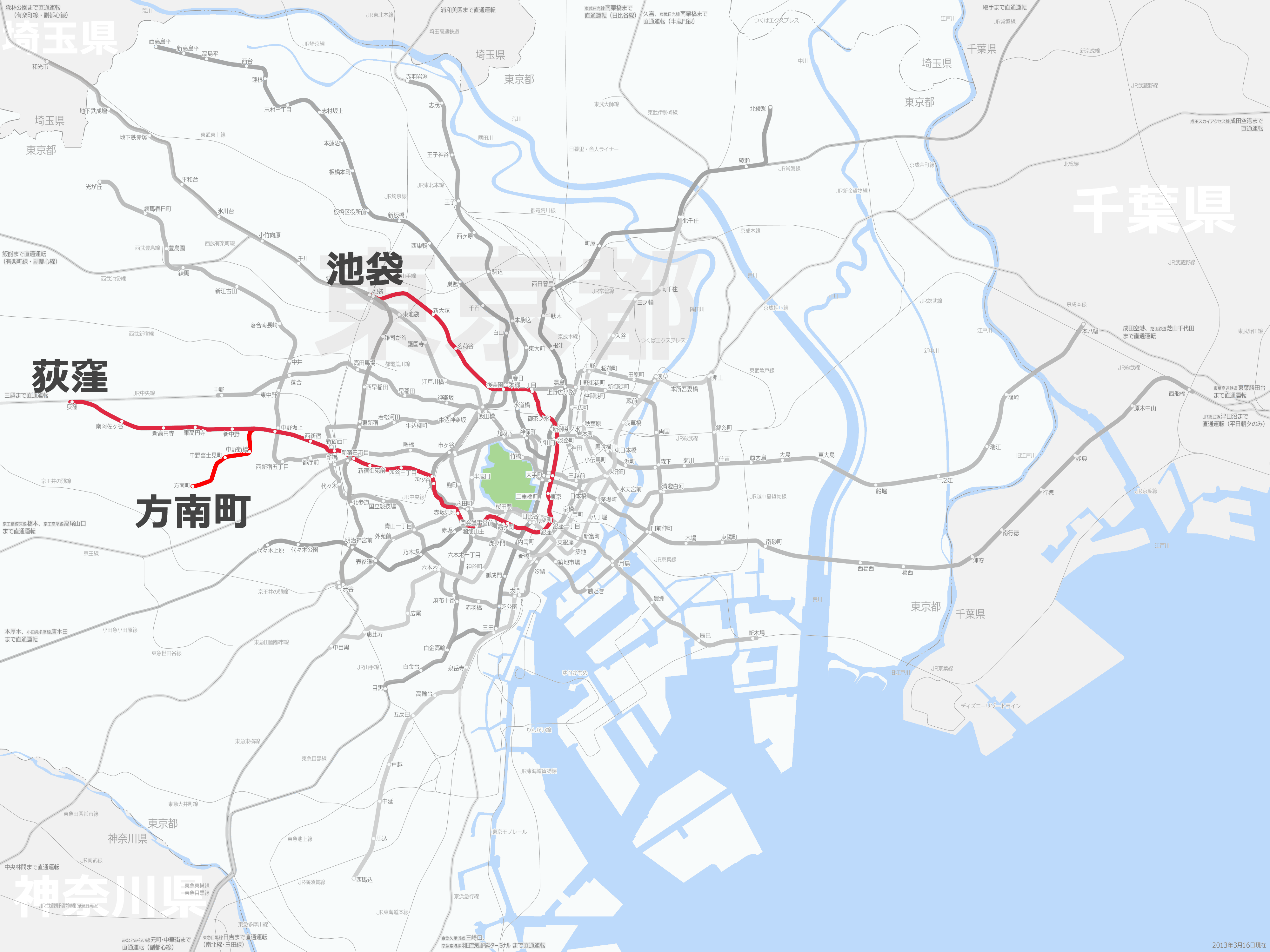 tokyo metro marunochi line map